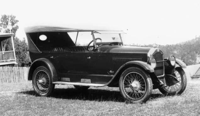 From original file description: Studebaker Special Six, 1924 model. A 1924 Studebaker Special Six, powered by a 288 cid., 55 bhp. side-valve six, with optional wire wheels. The chassis was imported from the USA, but the tourer body is probably Australian designed and manufactured. The 1924 Special Six was distinguished by having a new, sharply creased bonnet line and radiator, but retaining the shallow cone shaped headlamps of previous years.